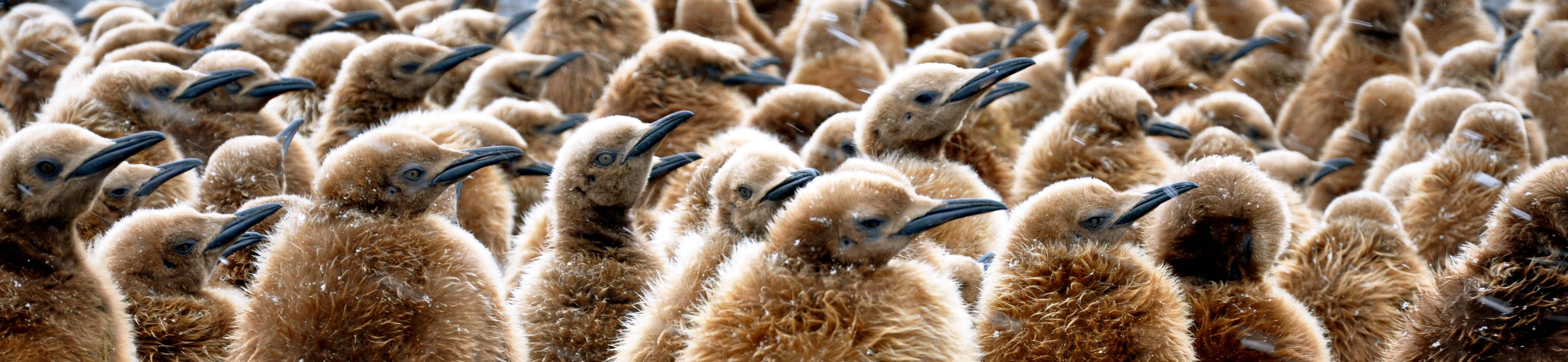 King Penguins (Youngs) (Aptenodytes patagonicus), Gold Harbour, South Georgia